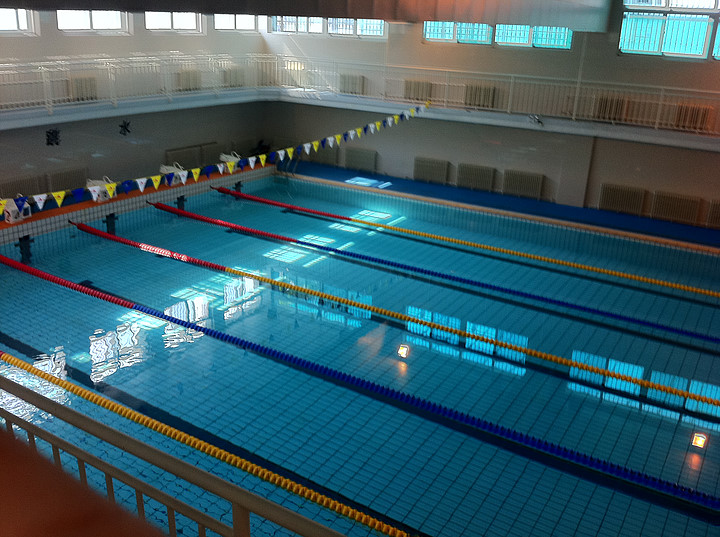 Swimming Pool in Beijing No.4 High School